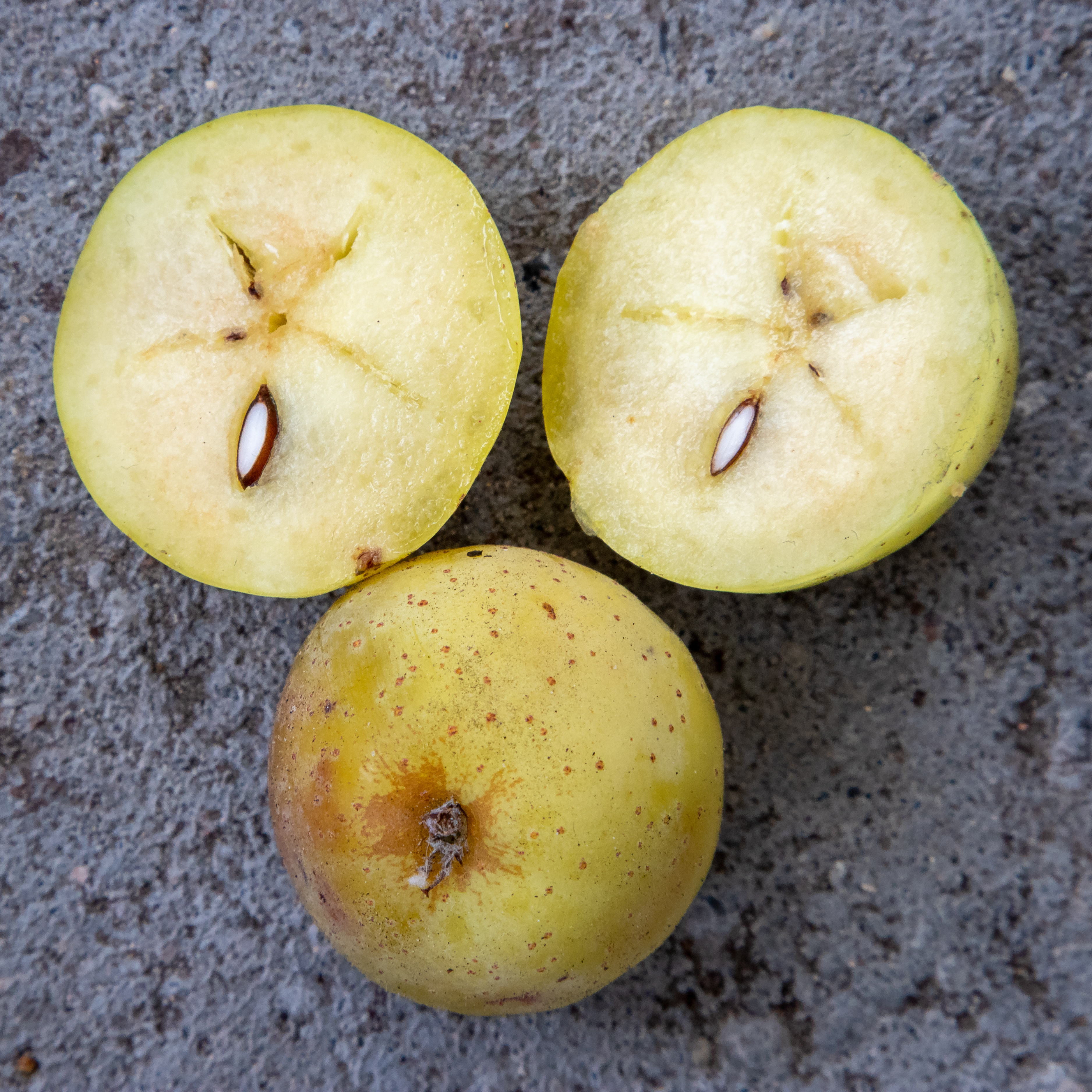 Sorbus domestica (fruit)